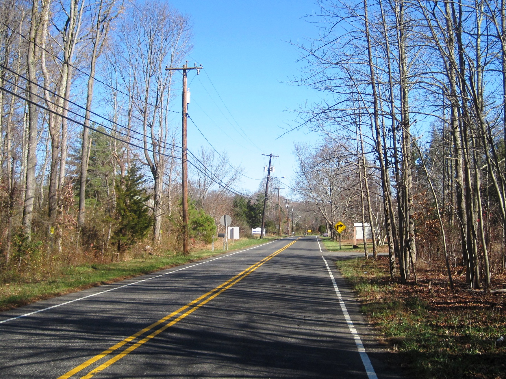 Photo of Tracy, New Jersey, an unincorporated community within Monroe Township, Middlesex County. Photo taken along eastbound Federal Road past the railroad crossing.